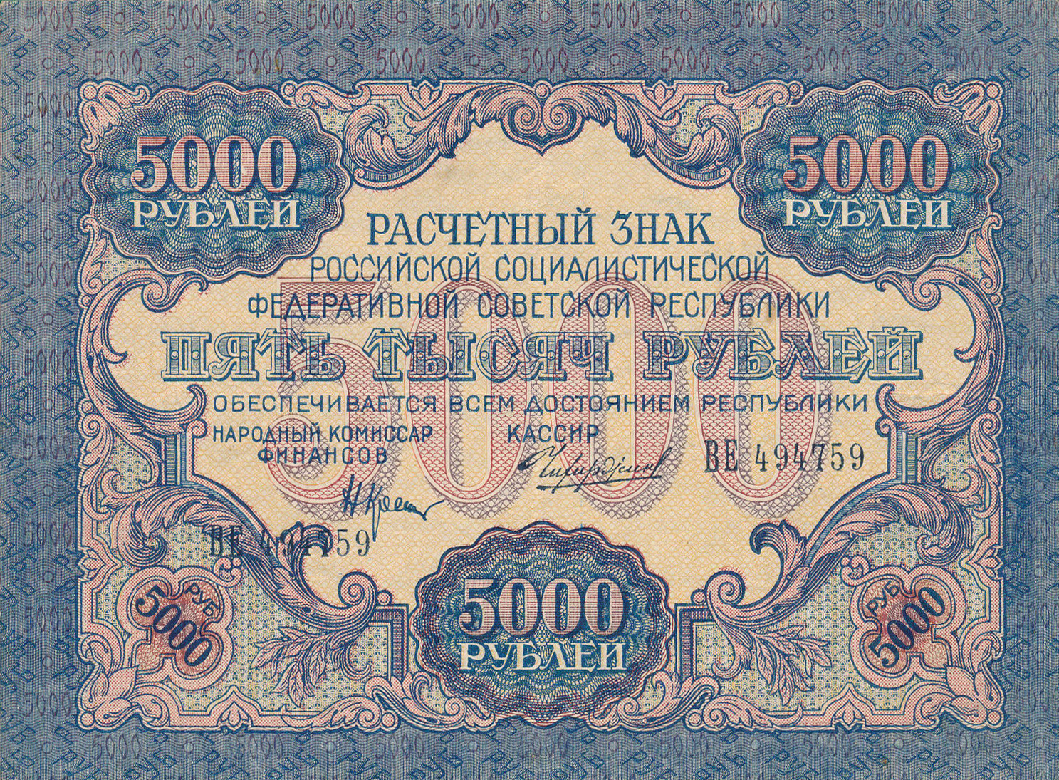 Soviet money bill, 1919 See also other side Image:5000roubles1919a.jpg